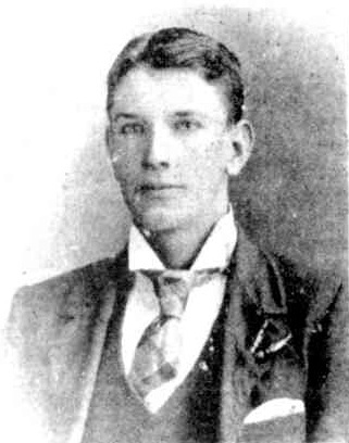 Photograph of Tom Hedley featured in Punch Newspaper in 1899